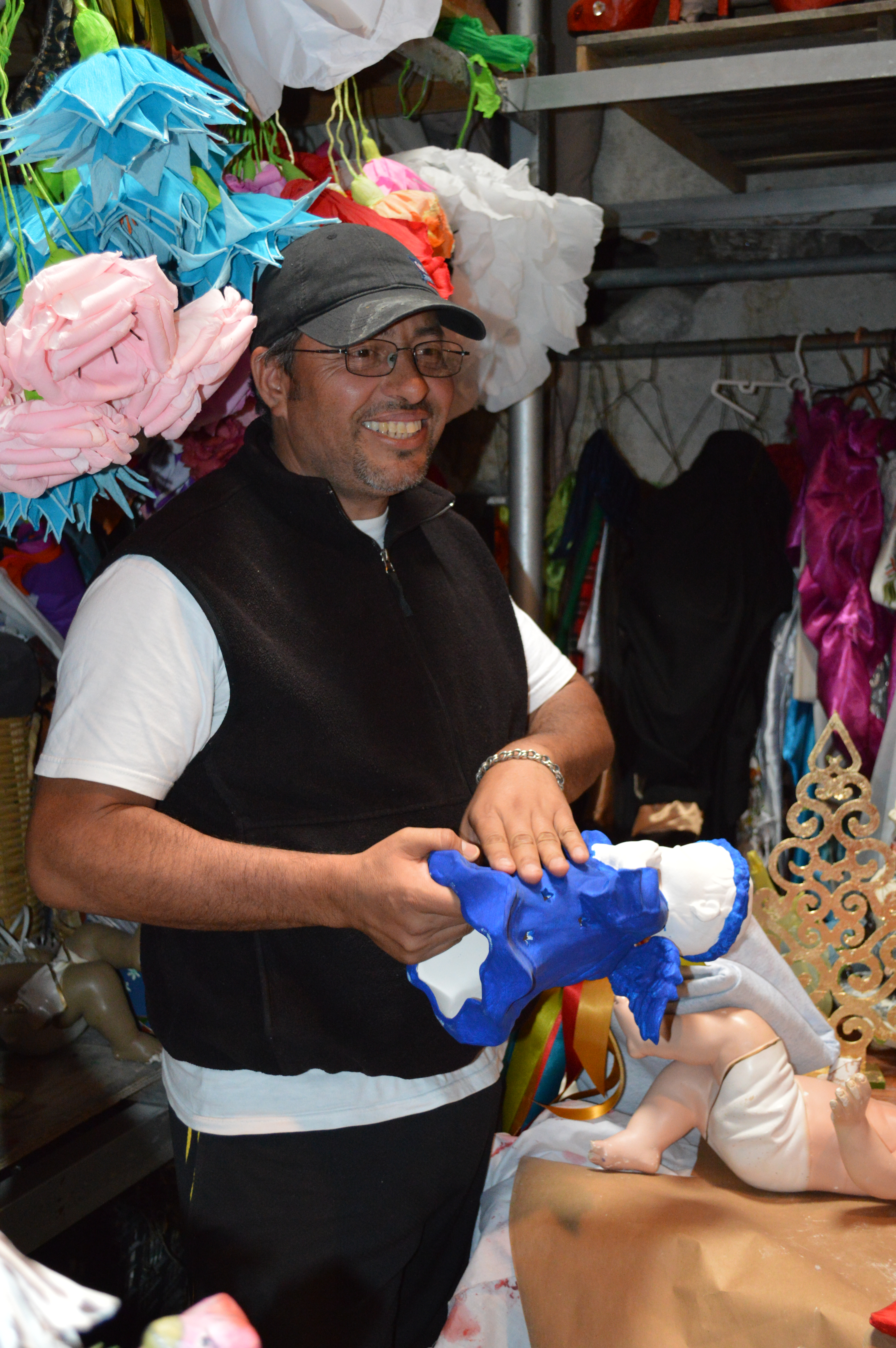 Hermes Arroyo at his workshop in San Miguel Allende, Mexico